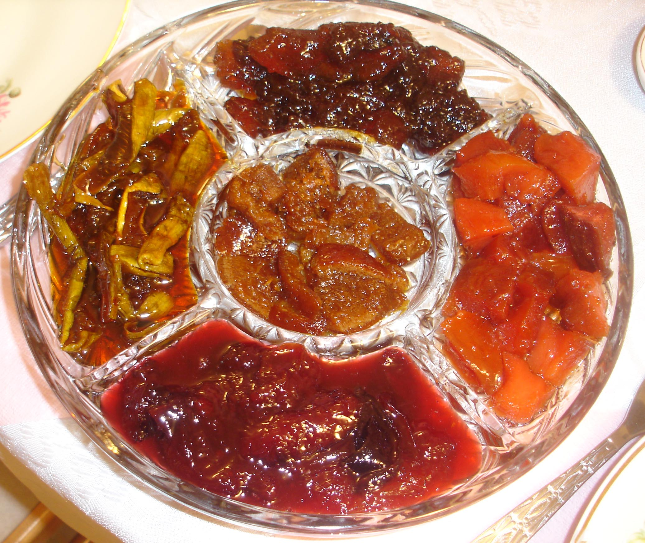 Symbolic food of the Jewish holiday Rosh HaShana (Libyan tradition)